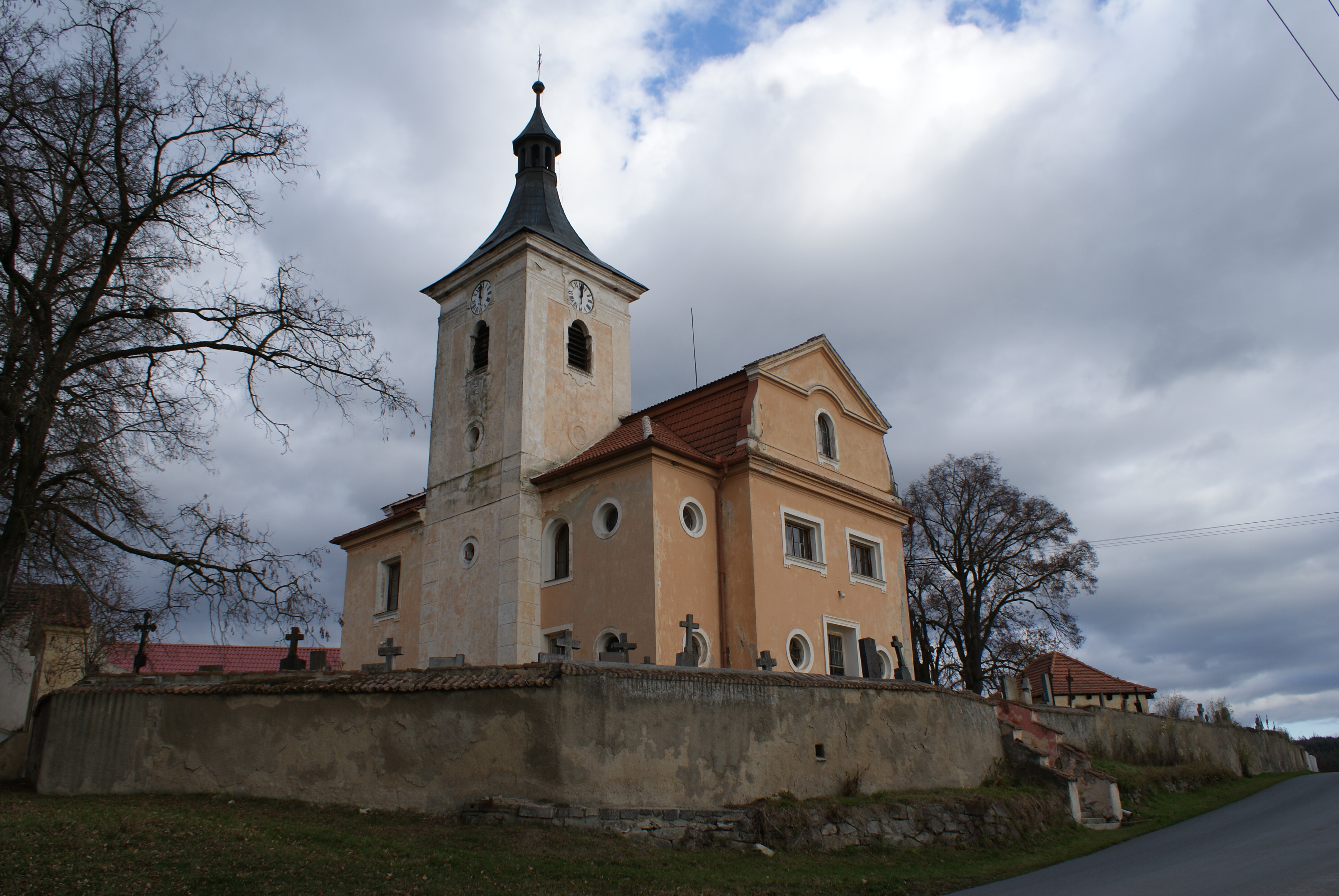 A church in Krč, part of Protivín, Písek District, CZE